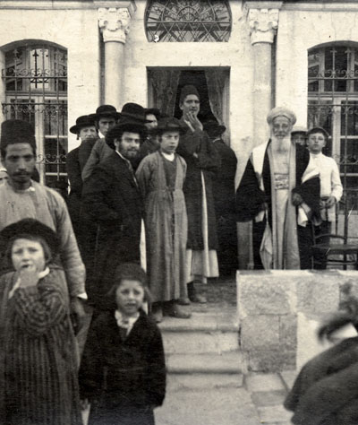 Photograph of a Jewish wedding in the Middle East 1904. "The Jewish marriages are celebrated with great pomp, the nuptial feast continuing seven days.The bride is accompanied by her mother and near relations, and the ceremony is performed in the presence of as many, beside those invited, as can find room in the house; for there is always a number of Turkish and Christian women among the spectators. The Castle band of musicians is employed the first day,and, on the subsequent days they have chamber music, dancers, and buffoons." ALEX RUSSELL, M.D. [ THE NATURAL HISTORY OF ALEPPO ], 1794.